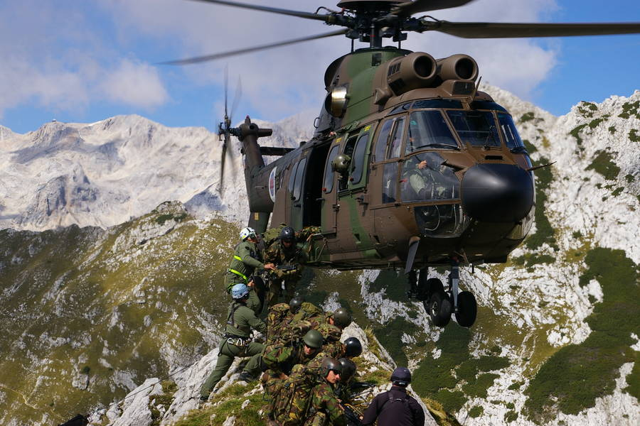 Slovenian helicopter AS AL 532 Cougar during military exercise